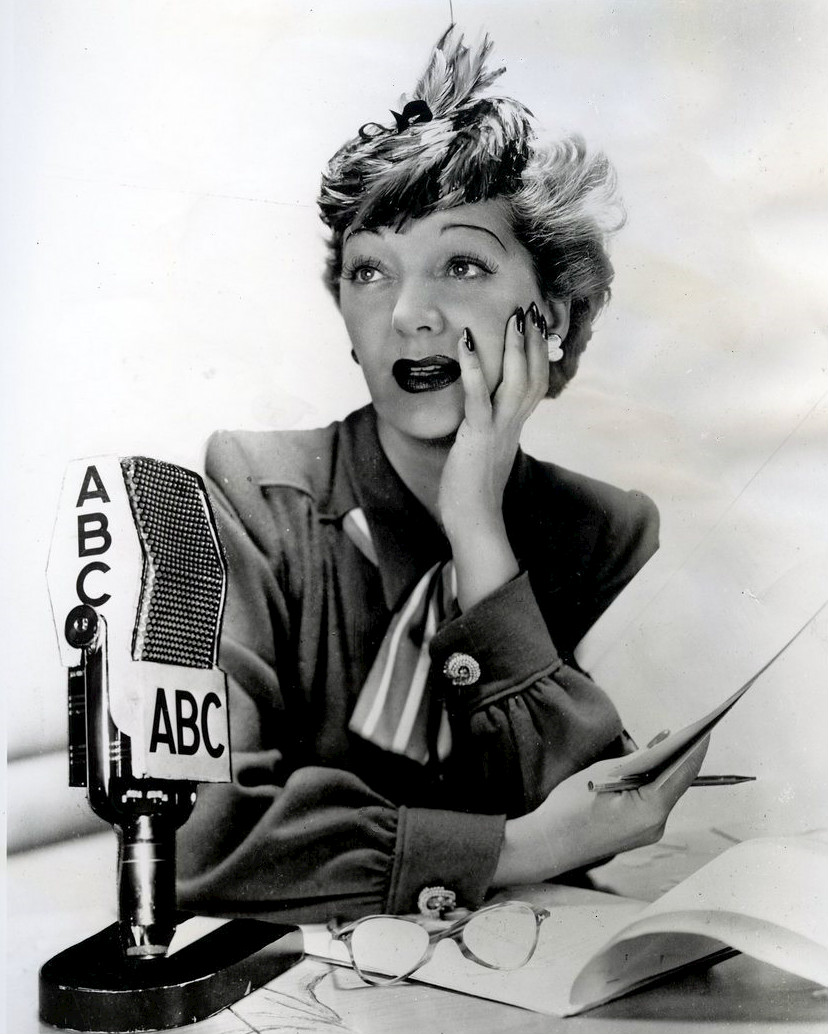 Photo of Gertrude Lawrence from an appearance on the Radio program Theatre Guild of the Air.